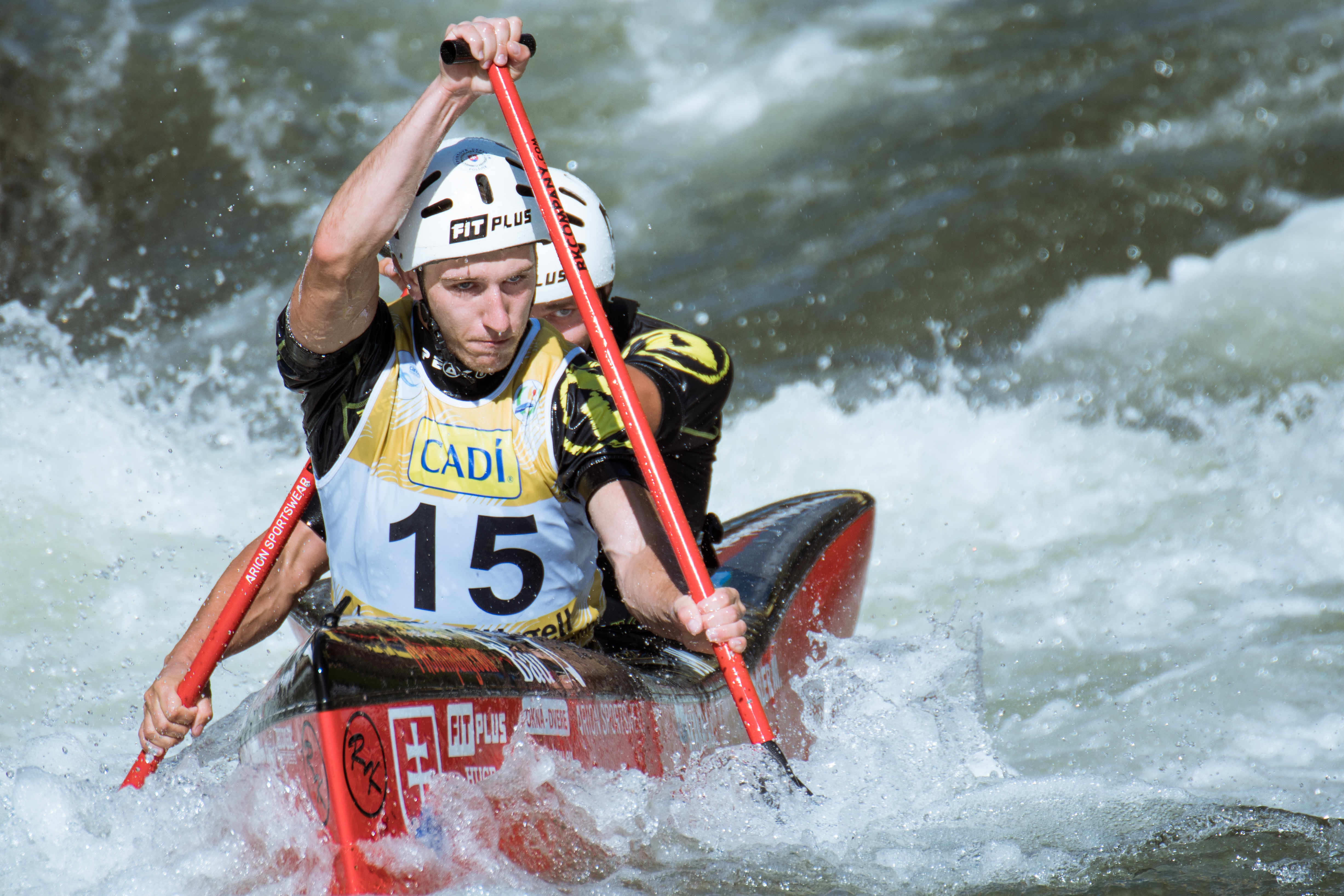 Juraj Skákala and Matúš Gewissler during the 2019 Canoe Wildwater World Championships in La Seu d'Urgell, Spain.